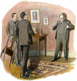 Illustration of "The Adventure of Charles Augustus Milverton" by Arthur Conan Doyle, which appeared in The Strand Magazine in april 1904, with the caption:"Exhibiting the butt of a large revolver, which projected from the inside pocket."